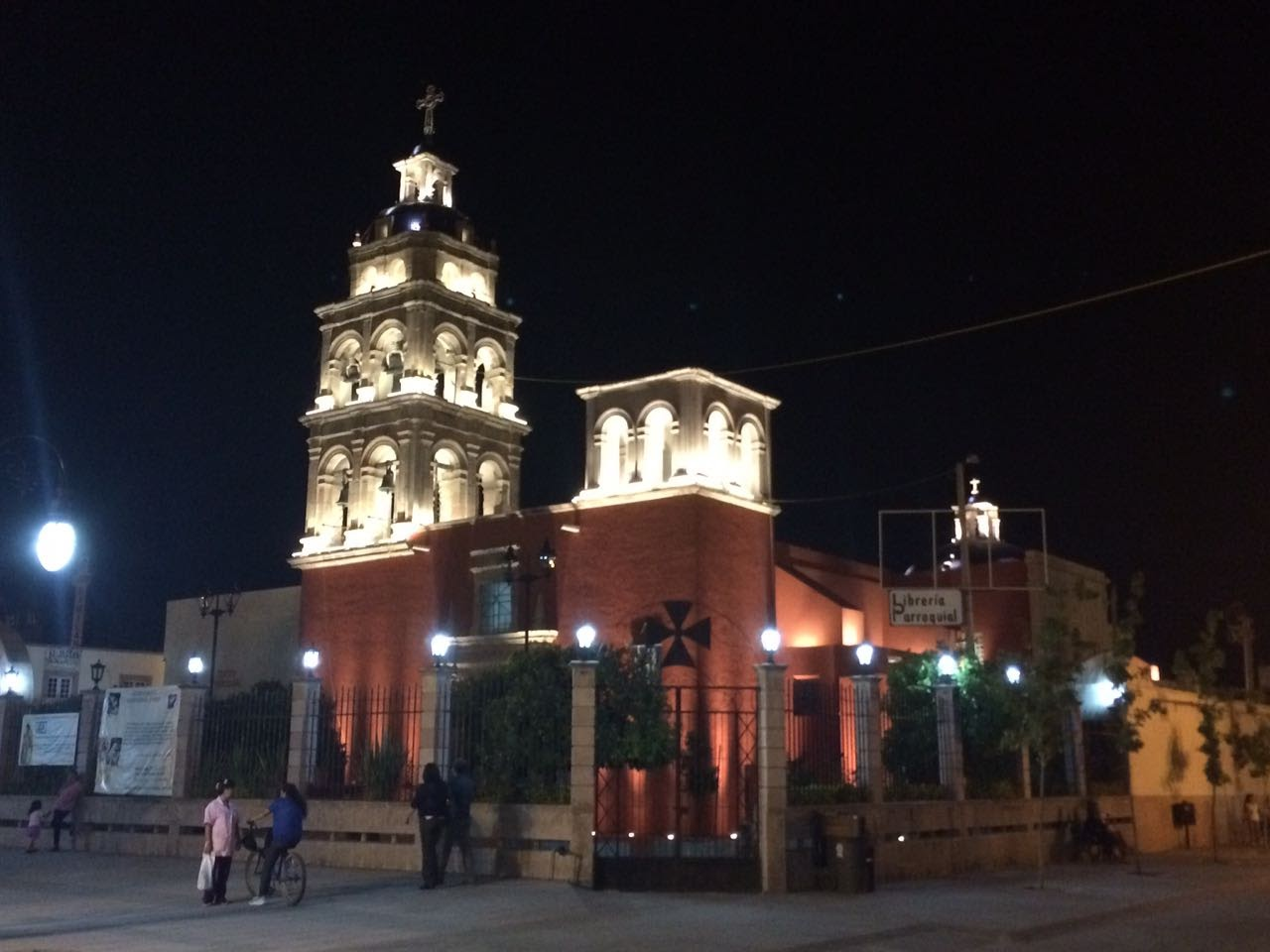 Parroquia de Purísima del Rincón en el año 2016